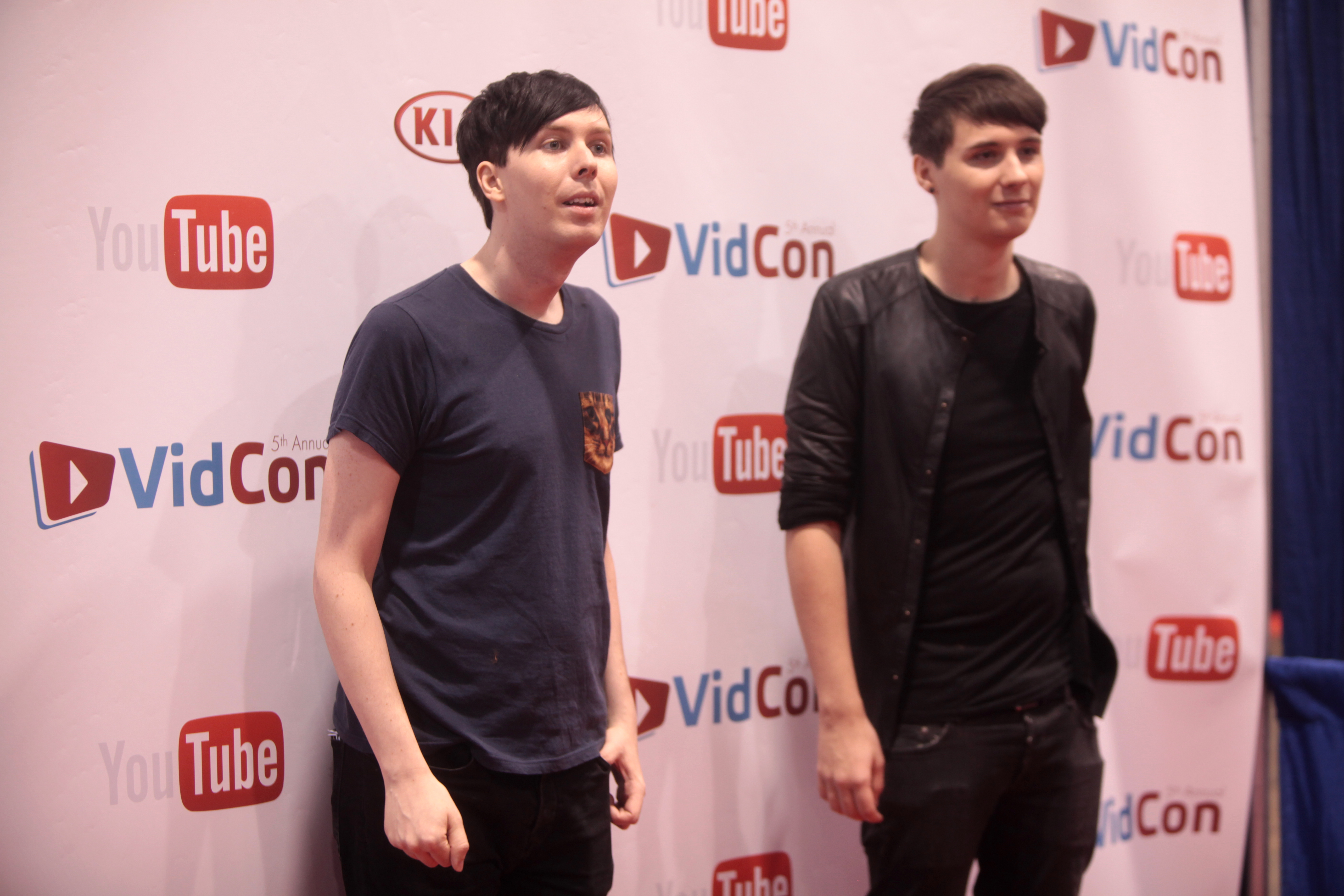 2014 VidCon at the Anaheim Convention Center in Anaheim, California.